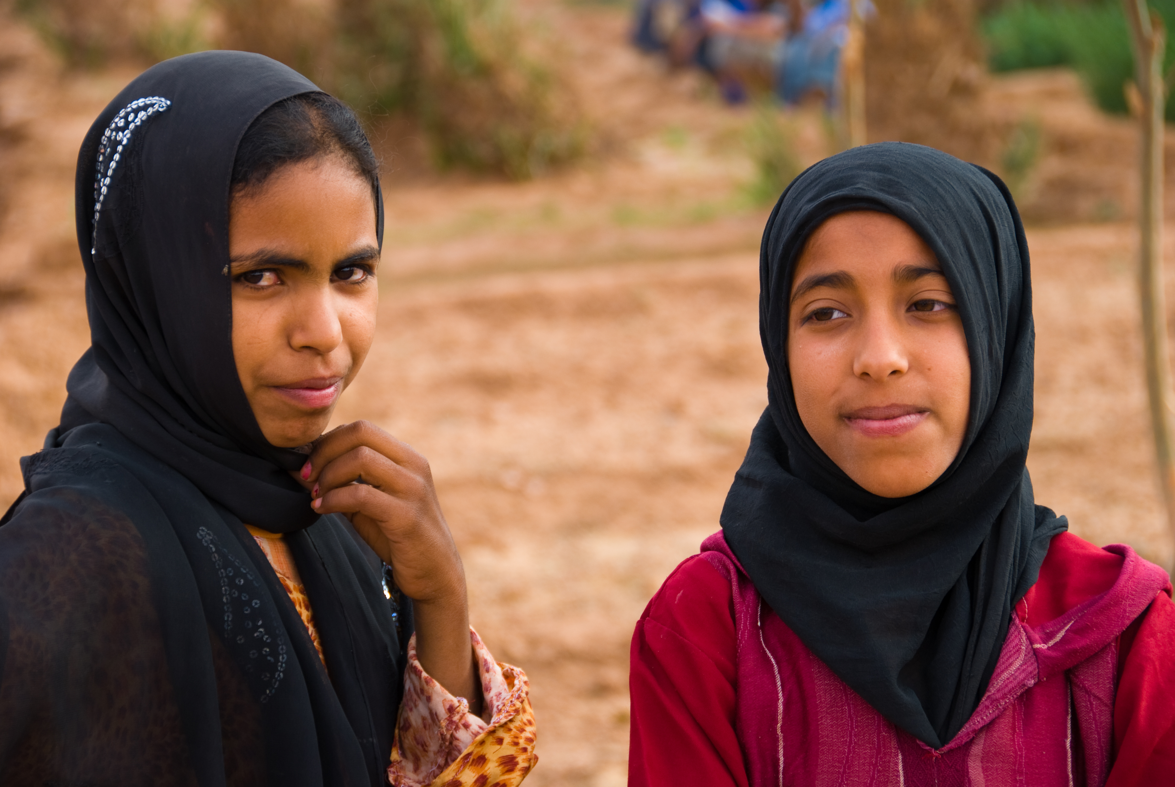 The whole set from Morocco